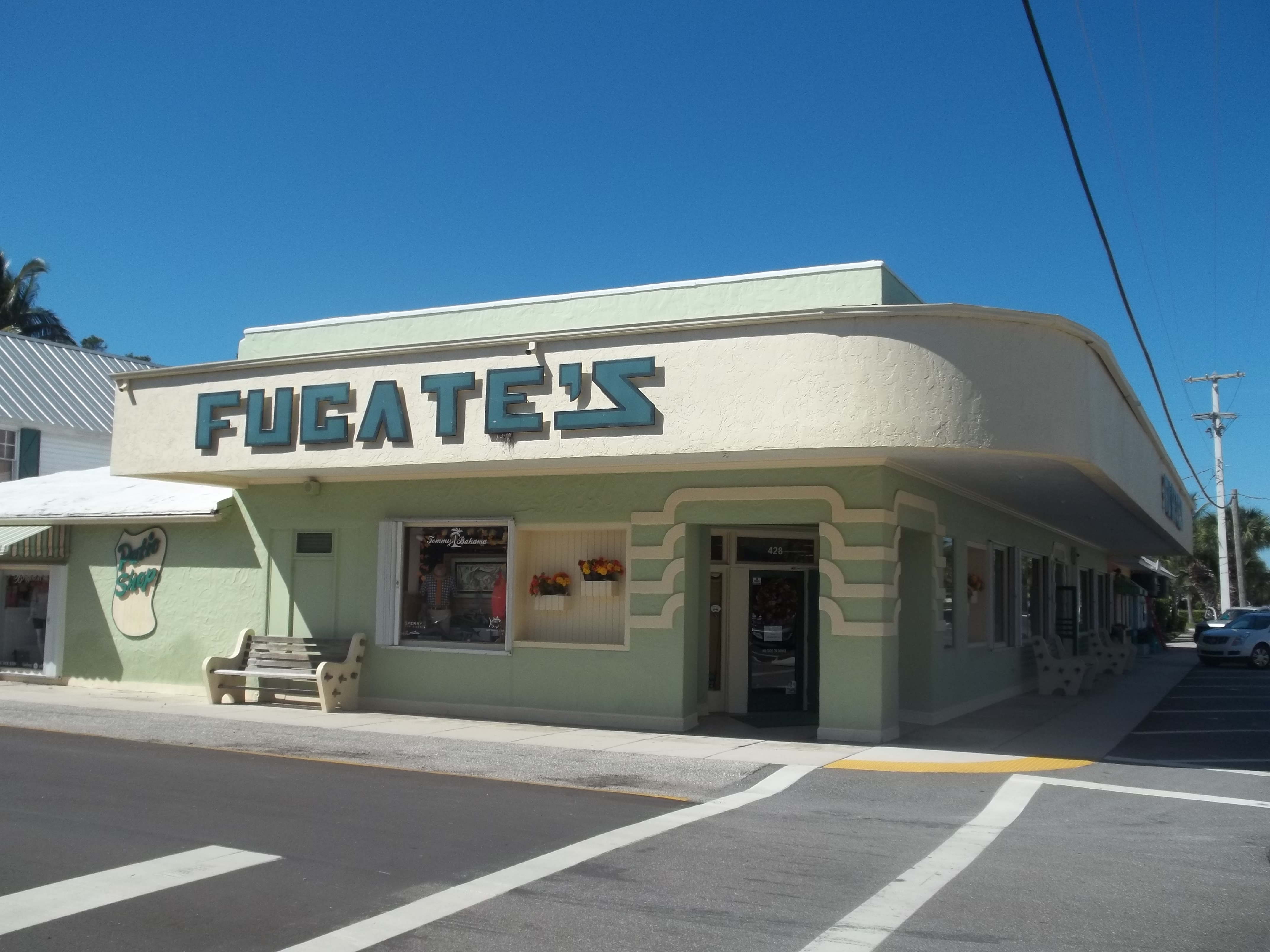 Boca Grande, Florida: Downtown Boca Grande Historic District: Contributing property